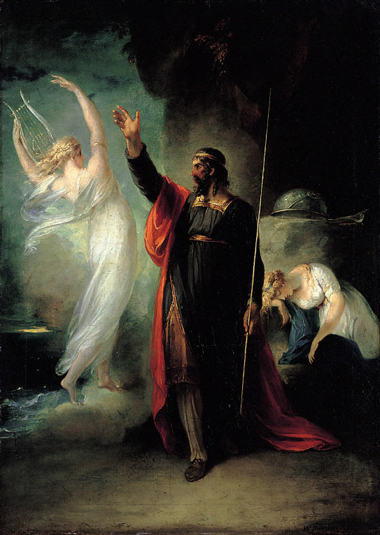 Prospero and Ariel (from Shakespeare's The Tempest), 1797 by William Hamilton (died 1801), Gallery: Alte Nationalgalerie Berlin, A III 589